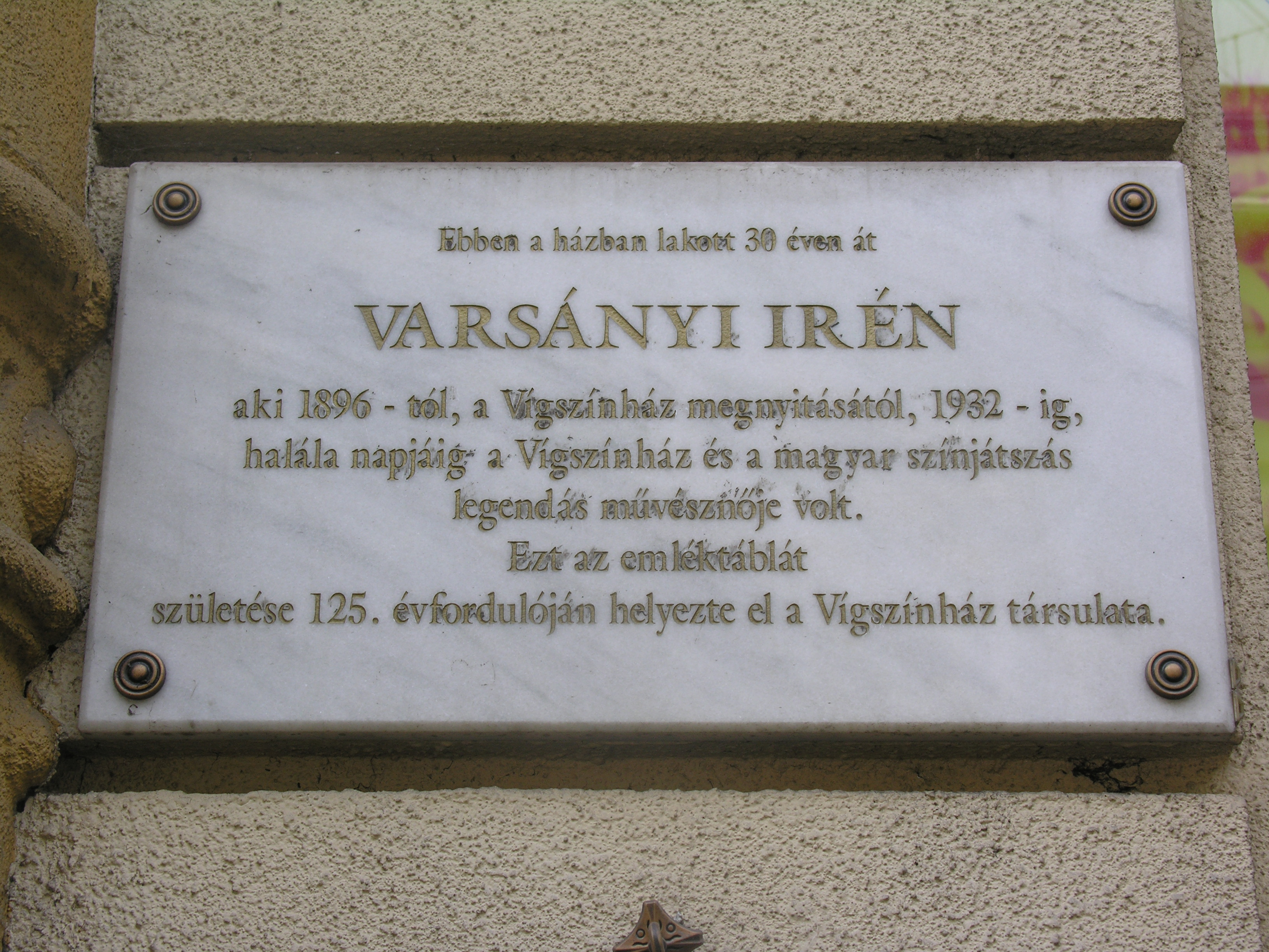 Commemorative plaque of Irén Varsányi in Budapest District V, Szent István Boulevard No 11